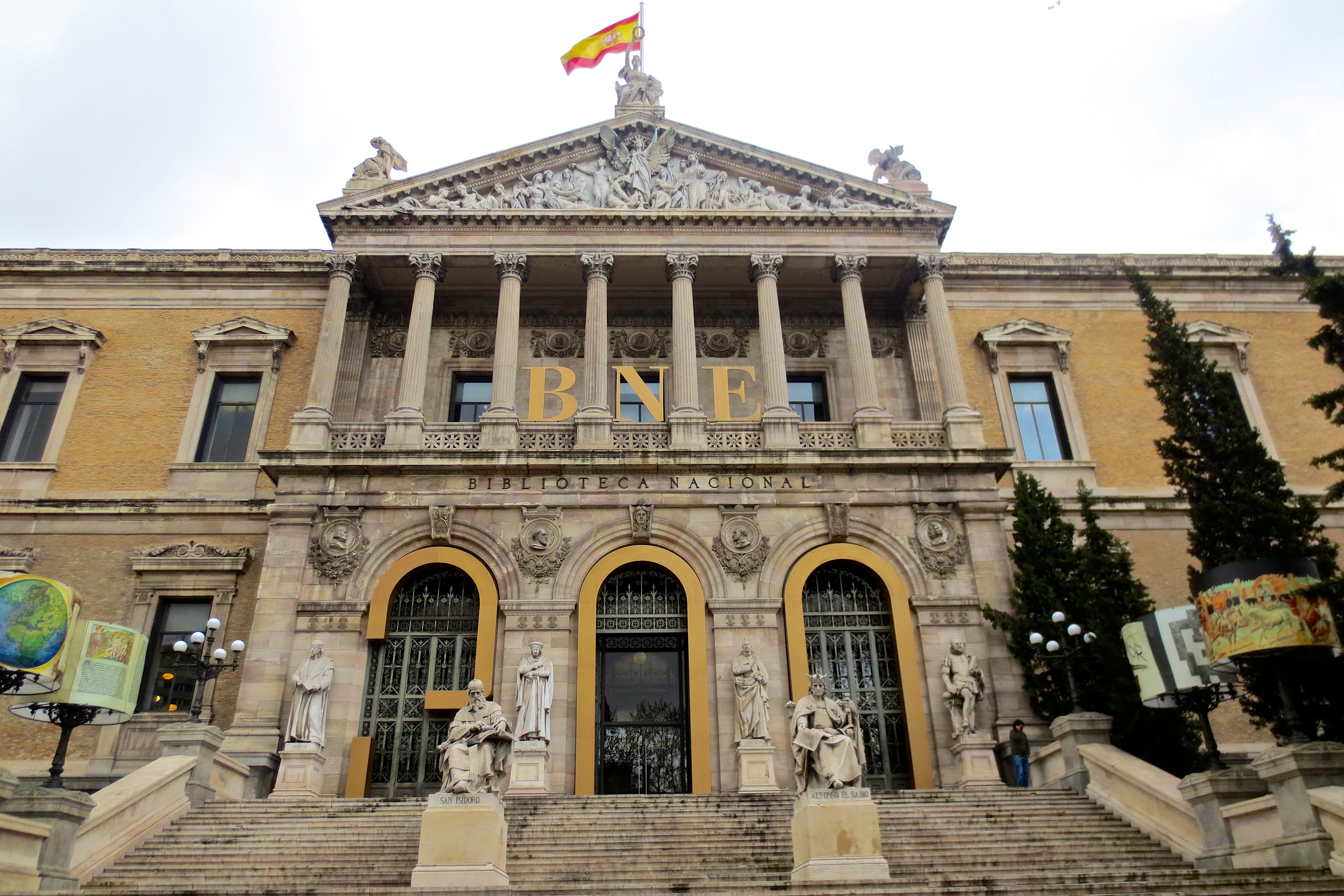 The Biblioteca Nacional de España (National Library of Spain) is a major public library, the largest in Spain and one of the largest libraries in the world. It is located in Madrid, on the Paseo de Recoletos. The library was founded by King Philip V in 1712 as the Palace Public Library (Biblioteca Pública de Palacio), and renamed in 1836.